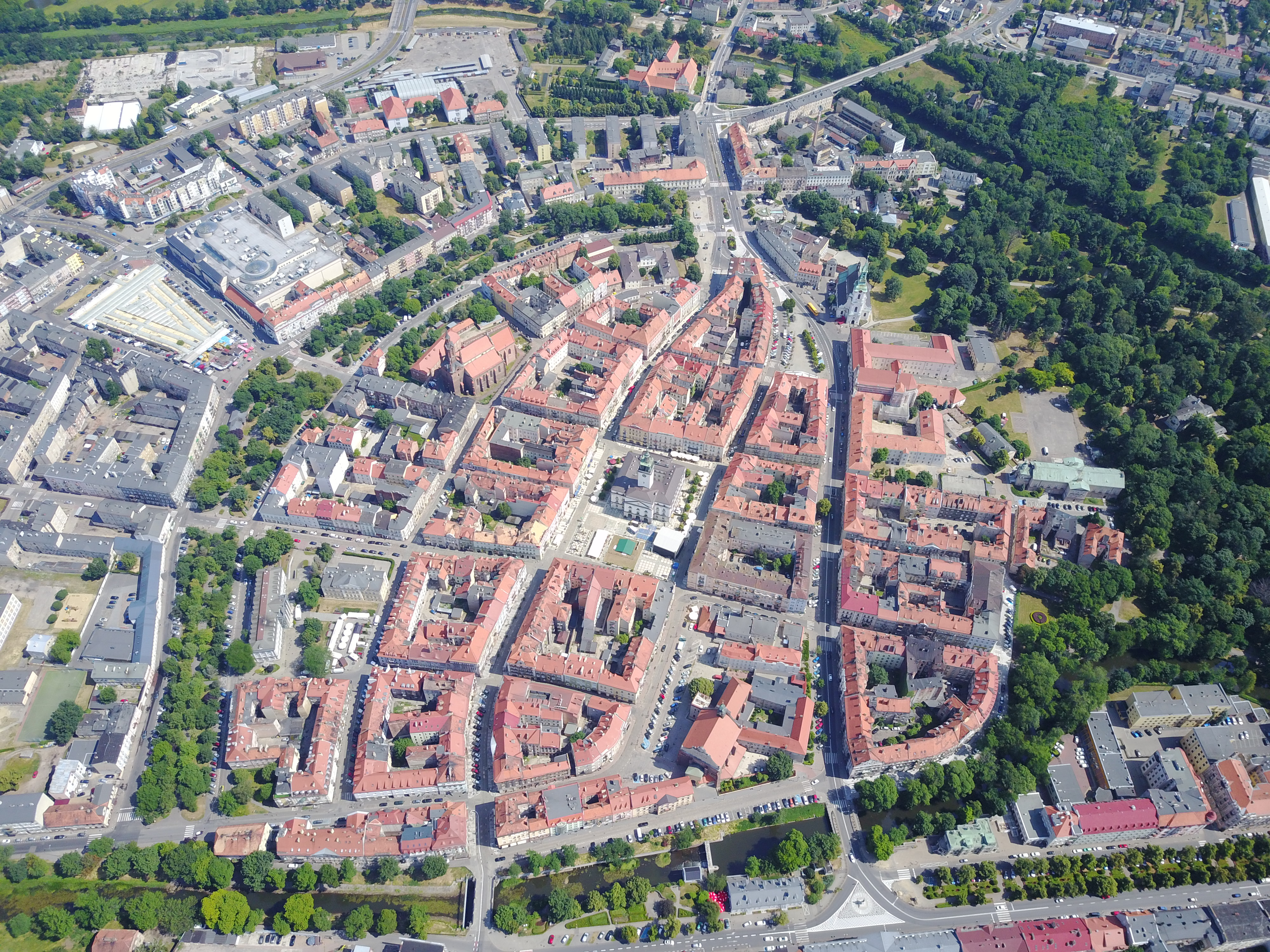 Aerial view of Kalisz